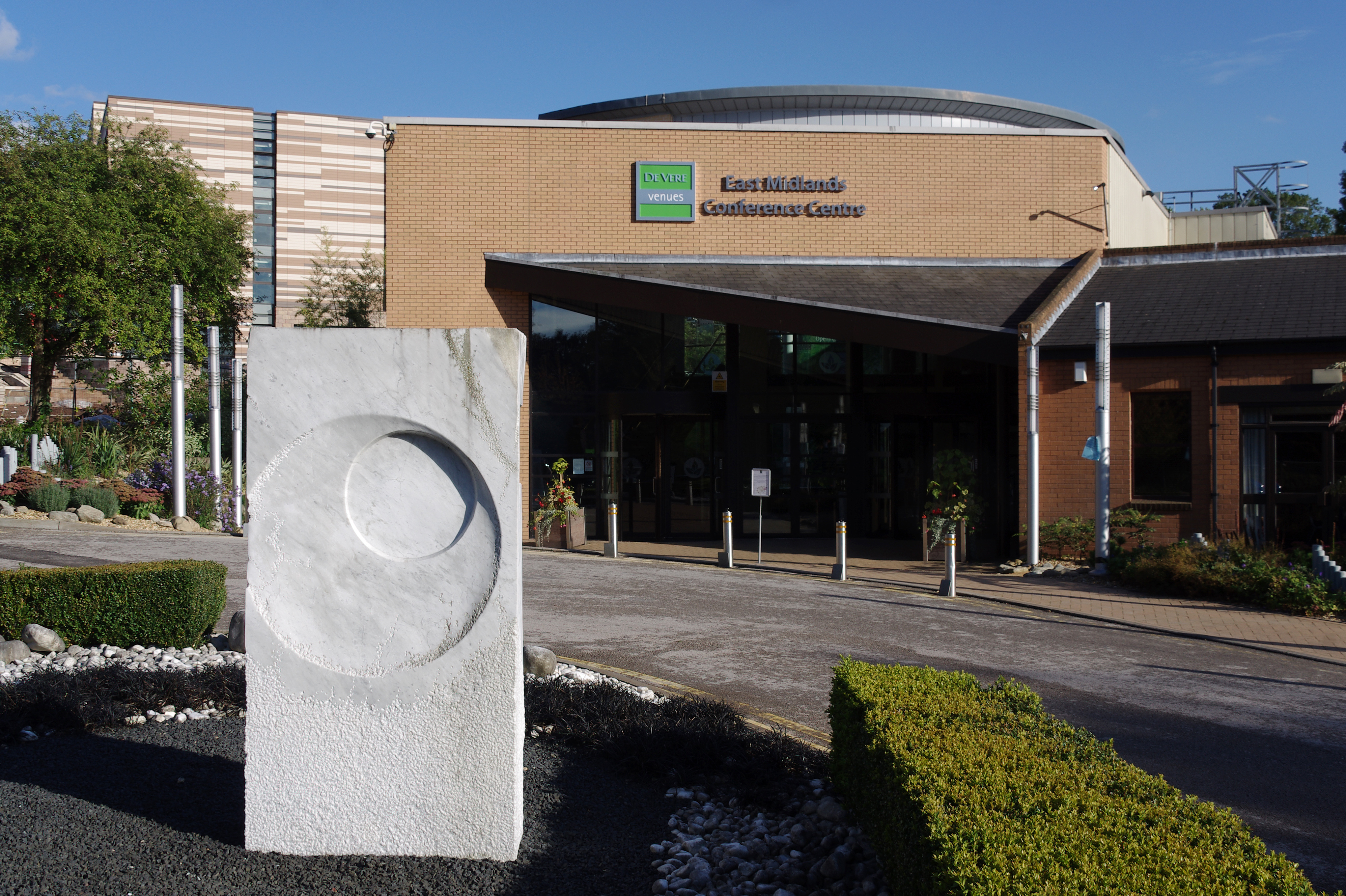 The East Midlands Conference Centre on University Park, Nottingham.